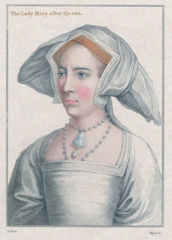 Mary Tudor, Princess of England, (February 18, 1516 - November 17, 1558; England), Daughter of Henry VIII and his first wife, Catherine of Aragon, Mary's reign in England attempted to restore Roman Catholicism. The execution of Protestants as heretics earned her the sobriquet "Bloody Mary."